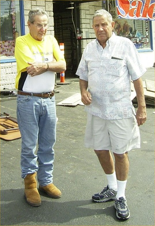 Body Glove founders Bill and Bob Meistrell outside of Dive N' Surf